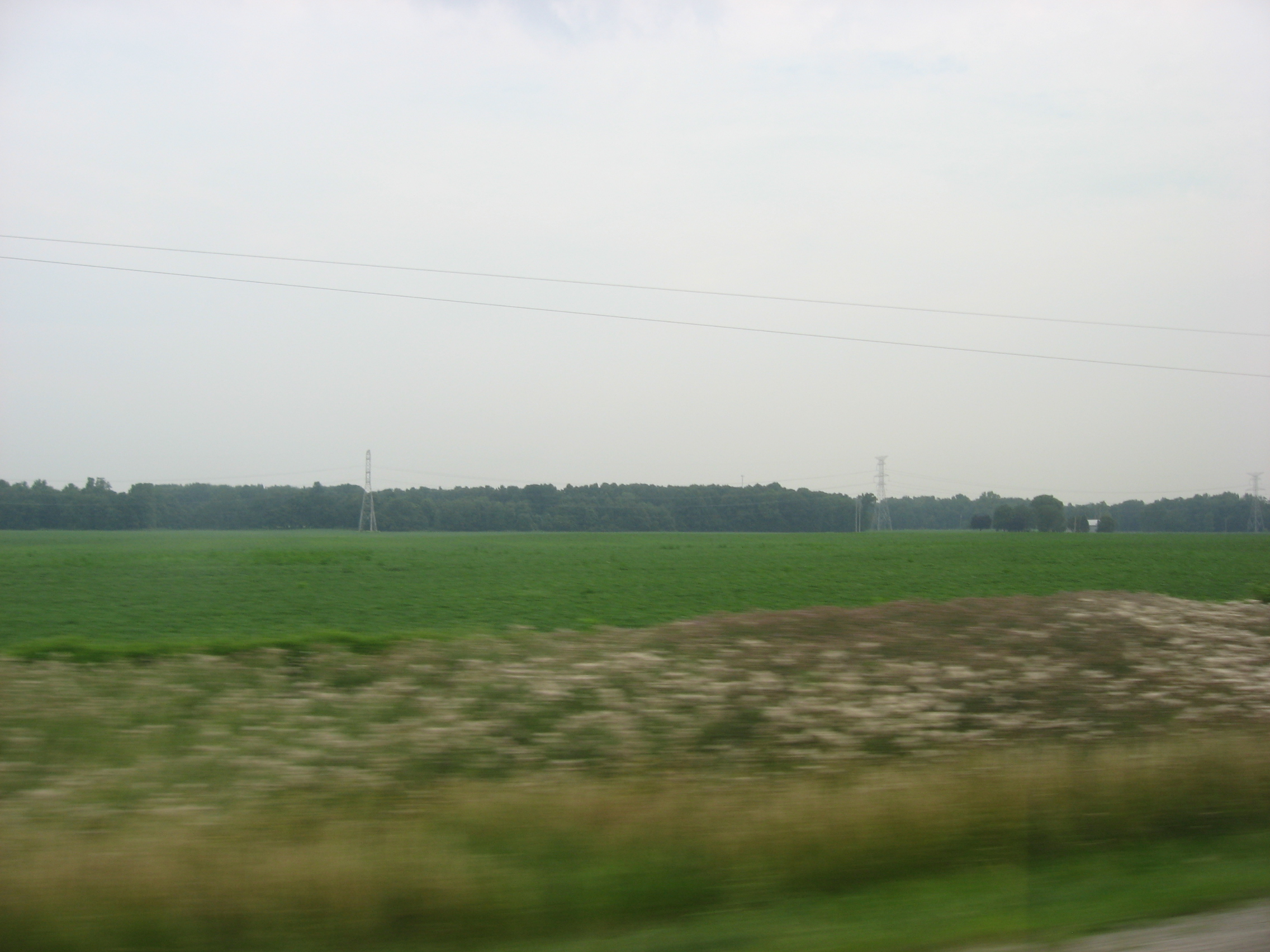 Countryside in central Berlin Township, Erie County, Ohio, United States. Picture taken looking northward from the concurrent Interstates 80/90 (the Ohio Turnpike).